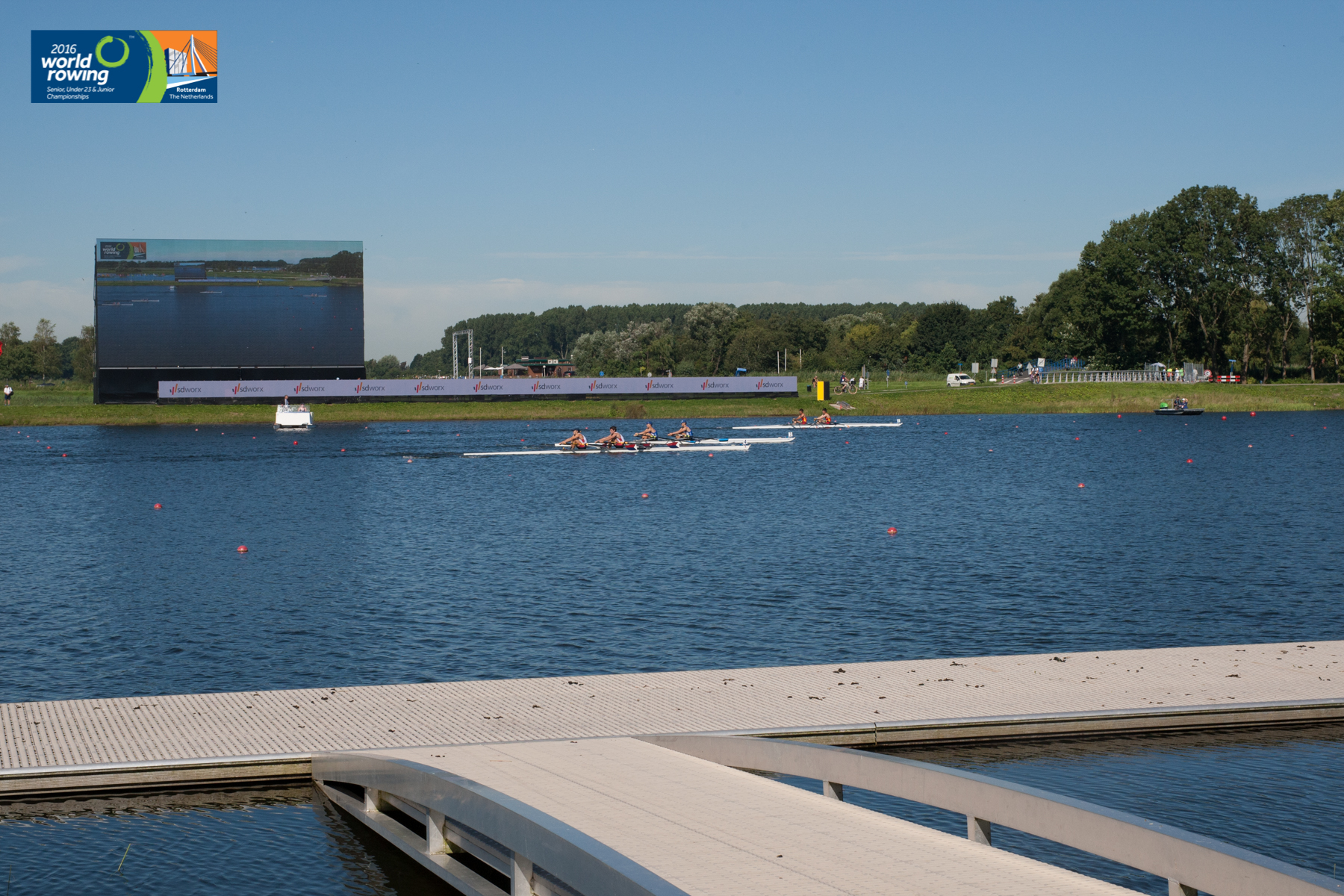 The 45th World Rowing Championships will be the 46th edition and is being held from 21 to 28 August 2016 at the Willem-Alexanderbaan in Rotterdam, Netherlands in conjunction.